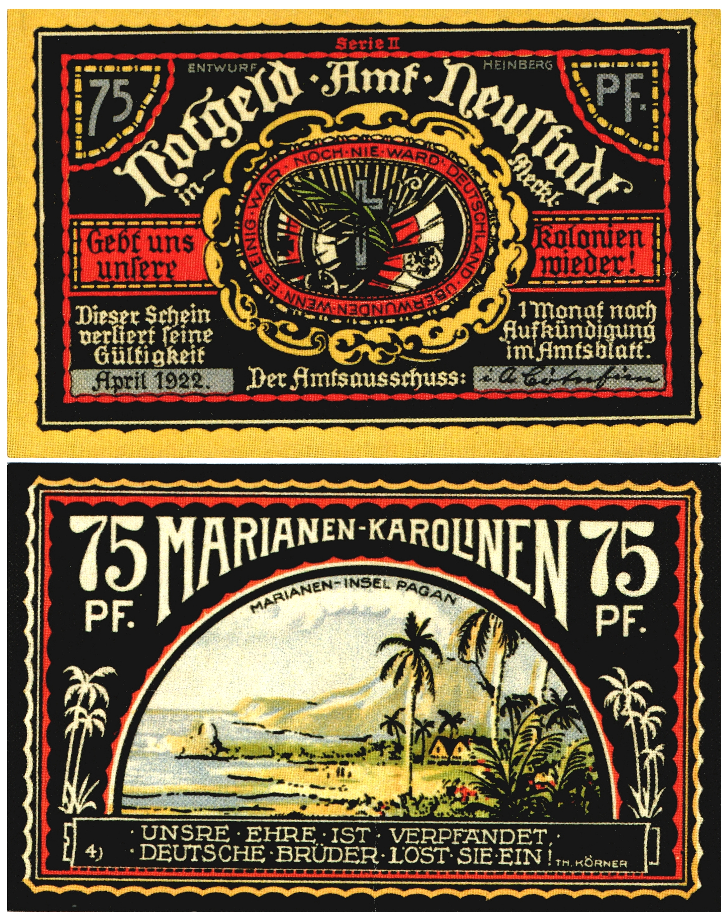 75 Pfennig "Notgeld" banknote (1922) of Neustadt in Mecklenburg, today Neustadt-Glewe. The text complains about the loss of the colonies on the Mariana Islands and the Caroline Islands in the Pacific Ocean after the Treaty of Versailles.Size: 61 mm x 97 mm.